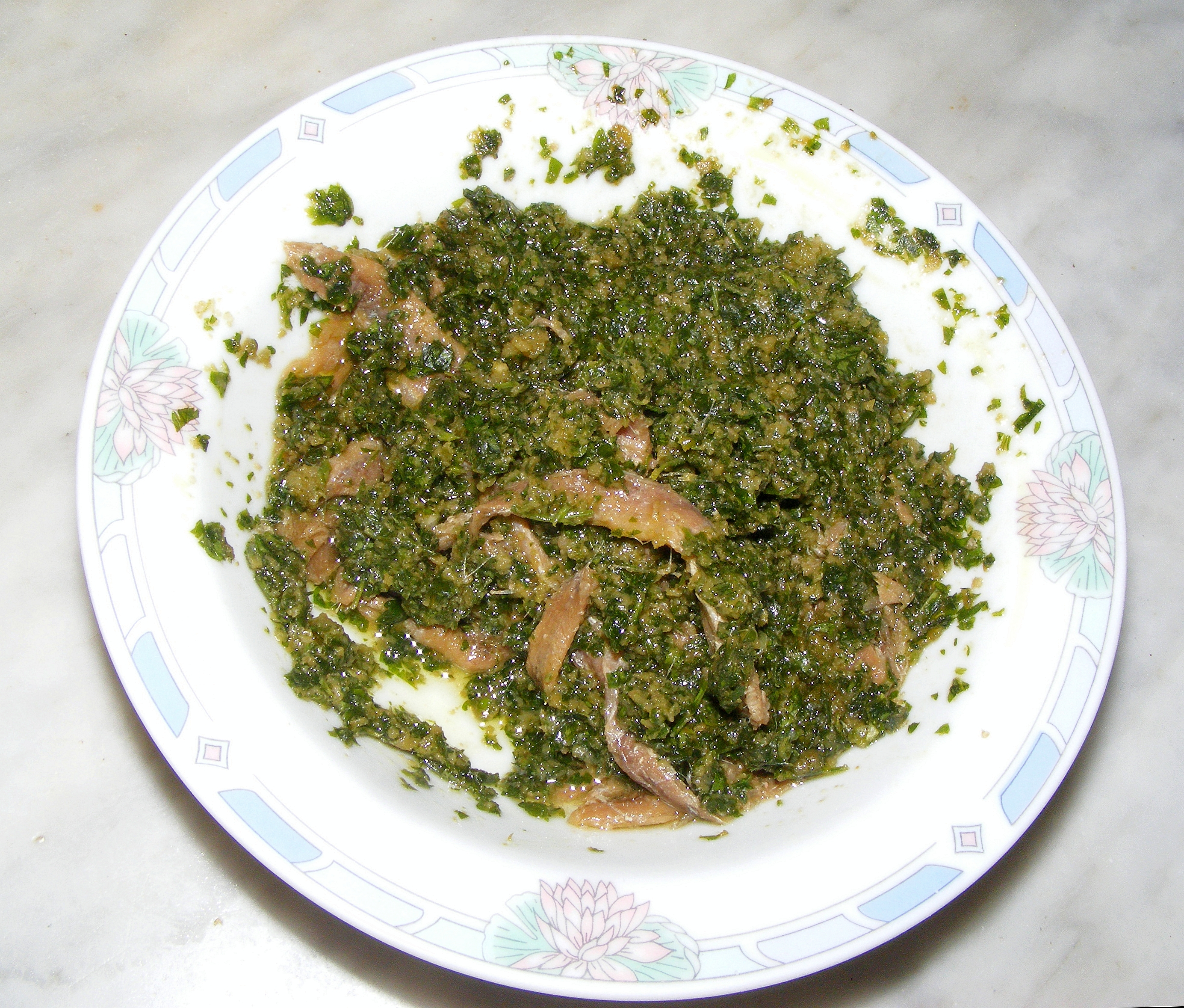 Green anchovis (traditional piedmontese recipe) Piemontèis: Anciove al verd